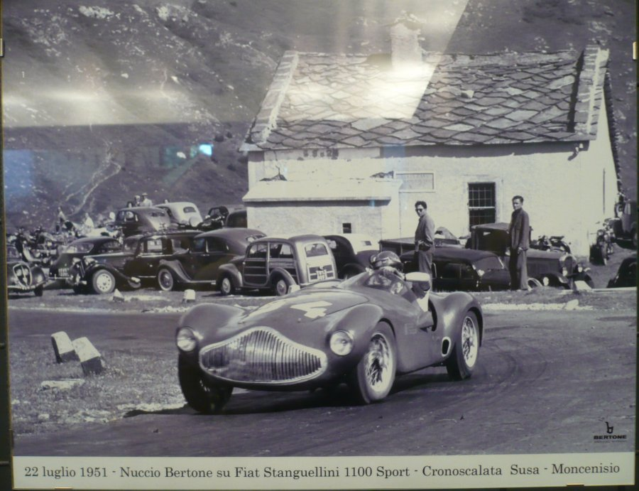 Nuccio Bertino climbs Susa-Moncenisio in a Stanguellini 1100 Sportio on 22 July 1951.